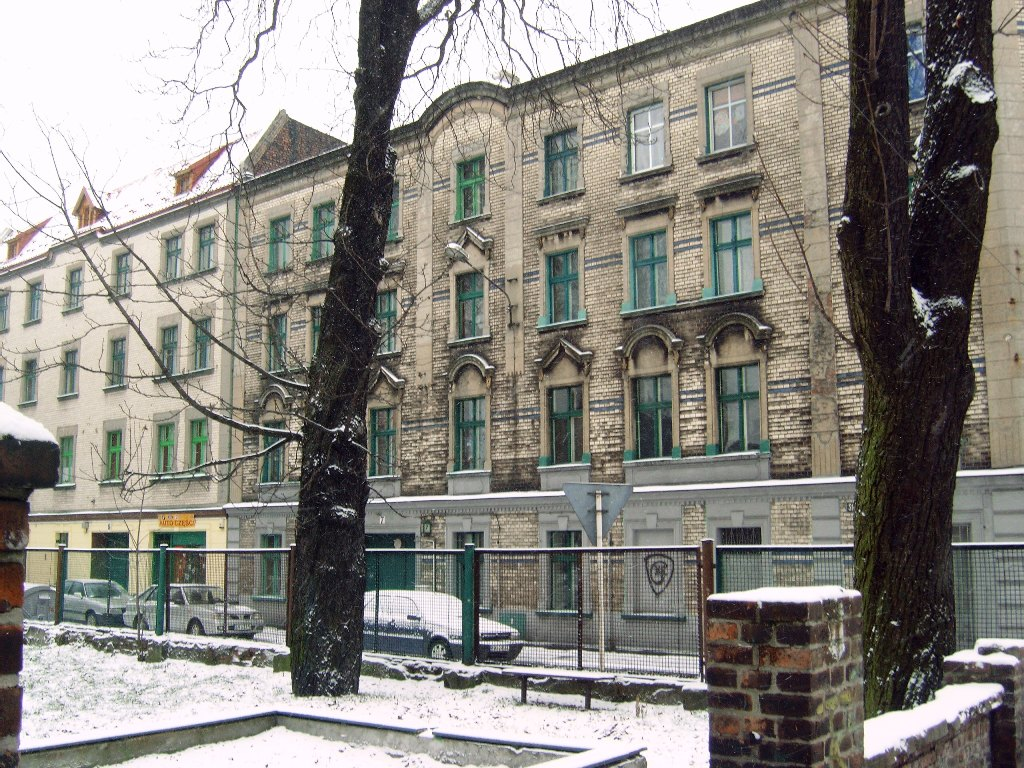 Old buildings in Dąbrówka Mała (Katowice)